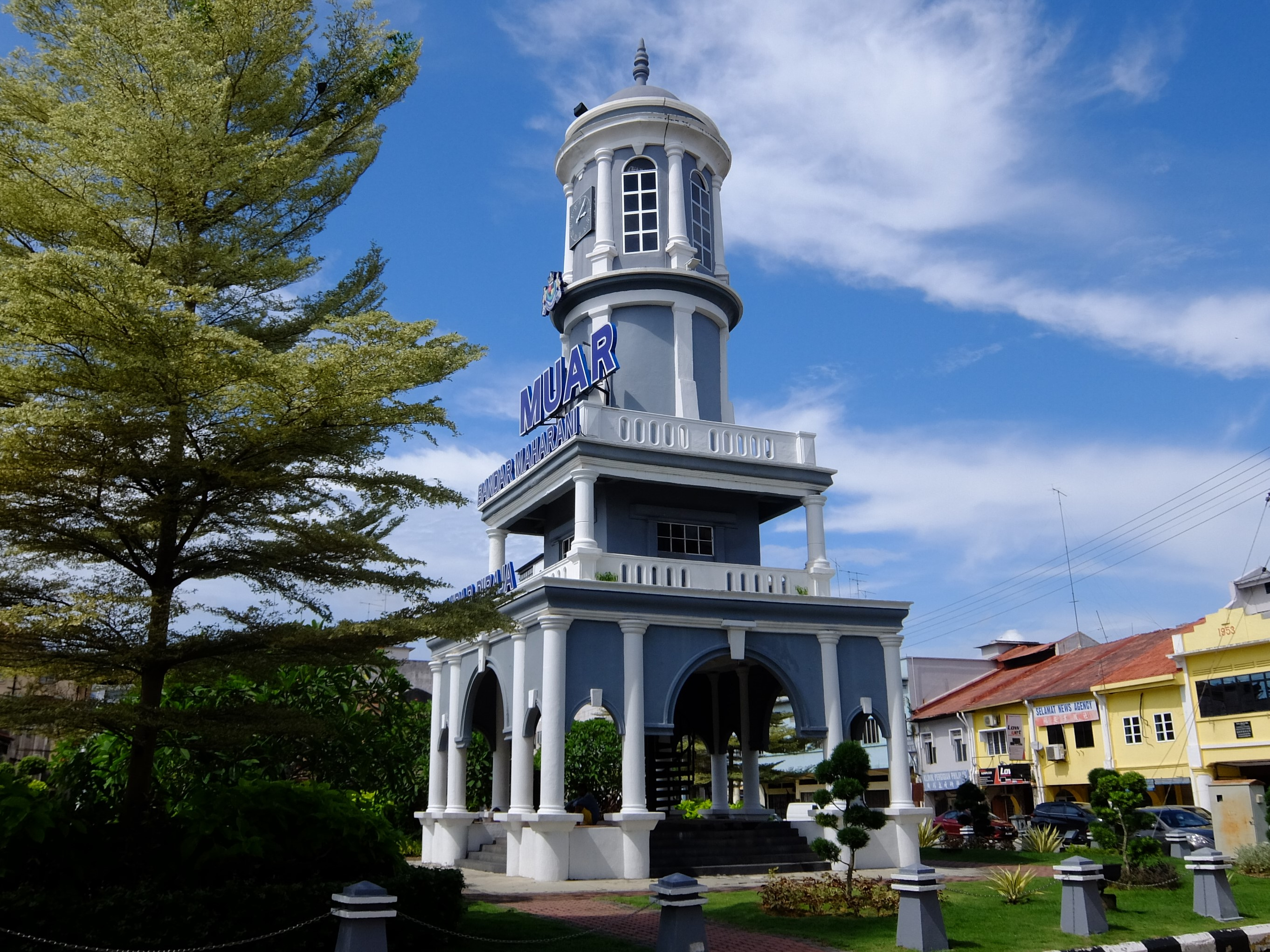 Muar Clock Tower, Bandar Maharani, Muar, Johor, Malaysia